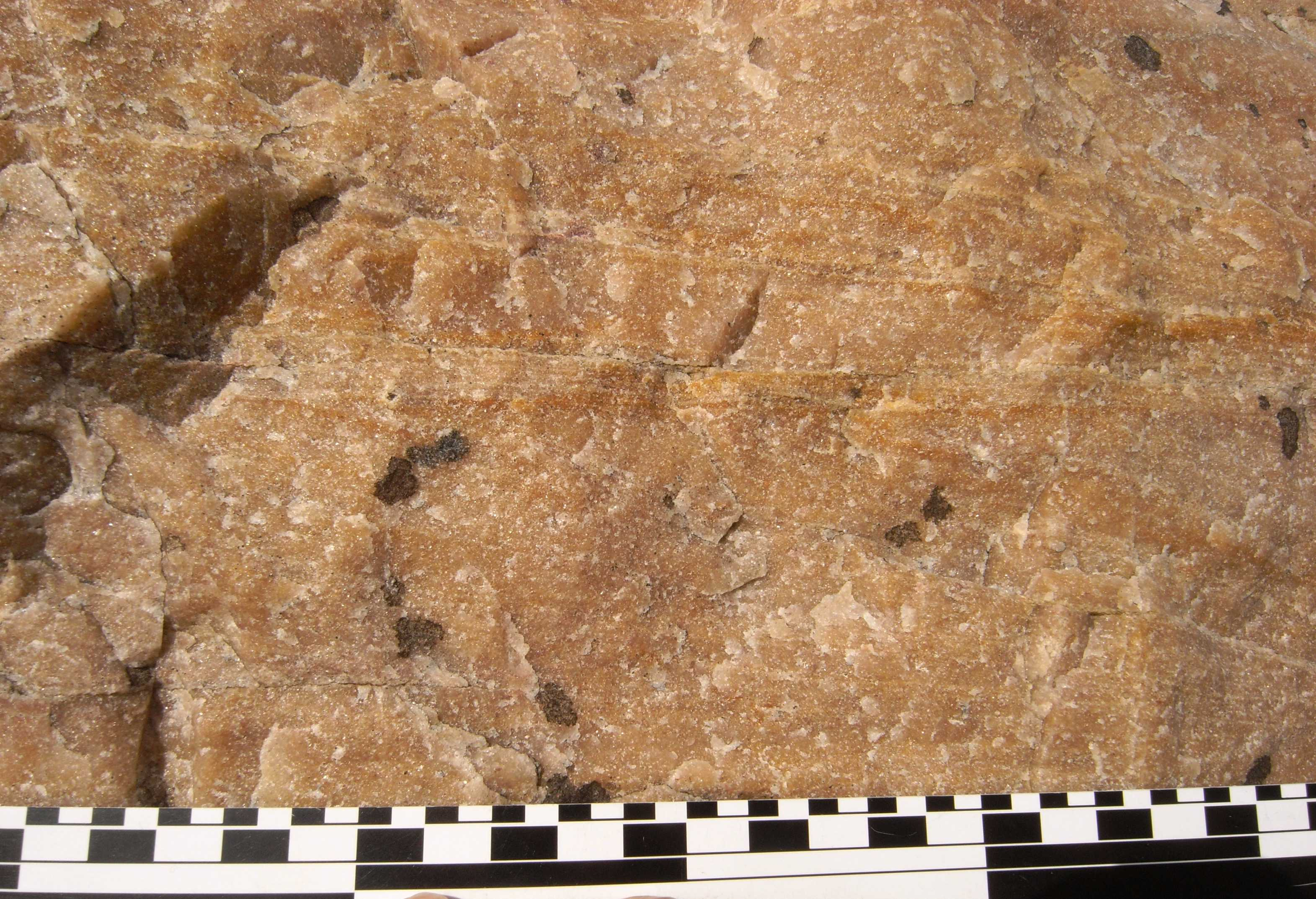 Quartzite with cross-bedding at the outcrop of the Assyntian Unconformity near Loch Assynt (Scotland), Neoproterozoic